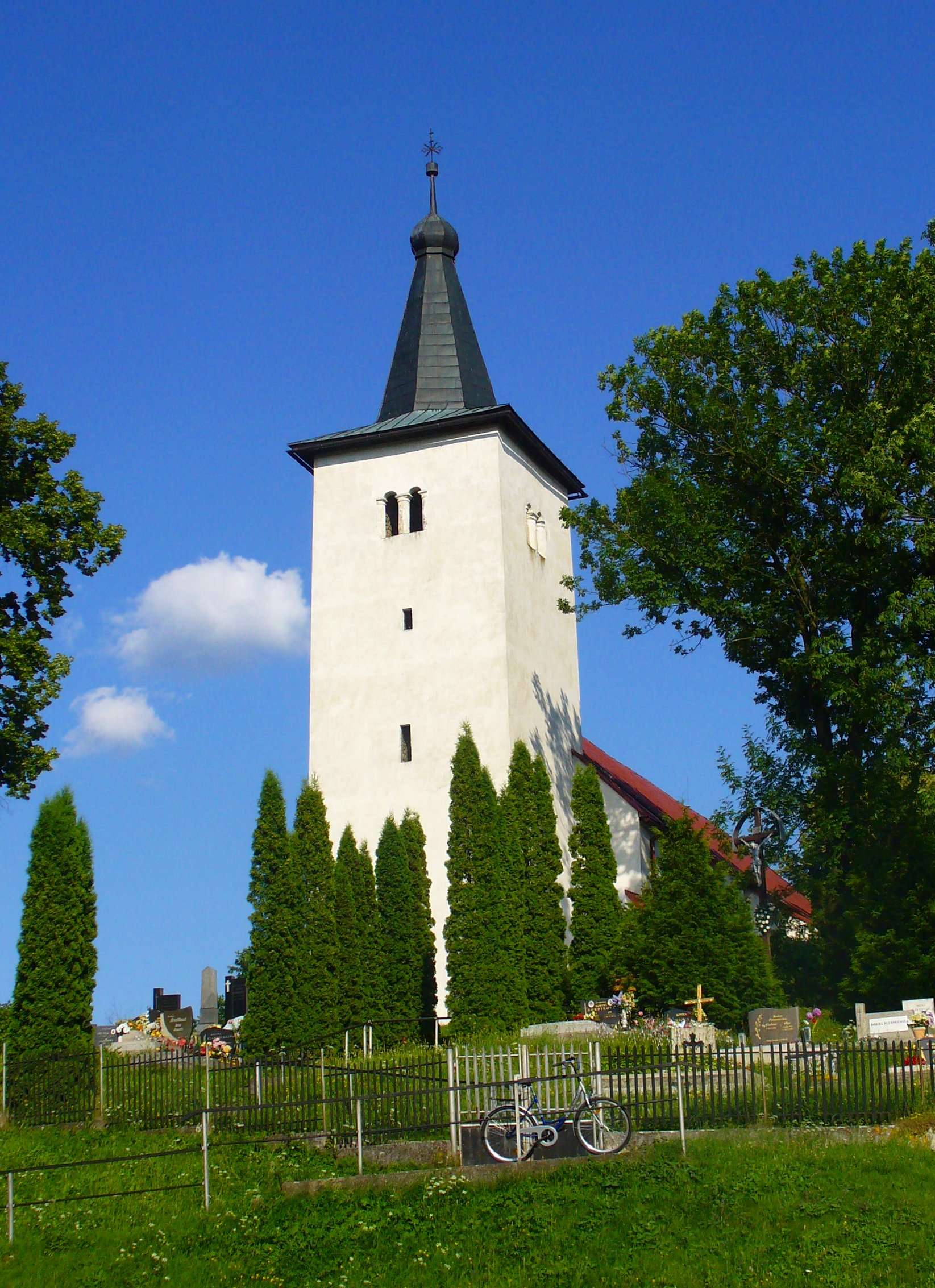 Church in Drazkovce, Slovakia.